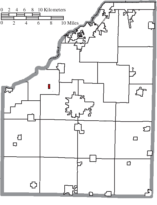 Map of the municipal and township boundaries of Wood County, Ohio, United States, as of the 2000 census, with the location of the village of Tontogany highlighted. Township borders are shown only in unincorporated areas in order to differentiate incorporated and unincorporated areas more clearly.